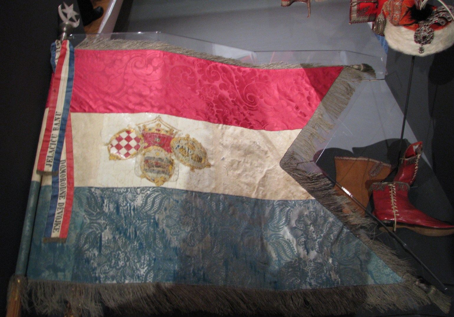 Flag of Croatia during the reign of viceroy Josip Jelačić